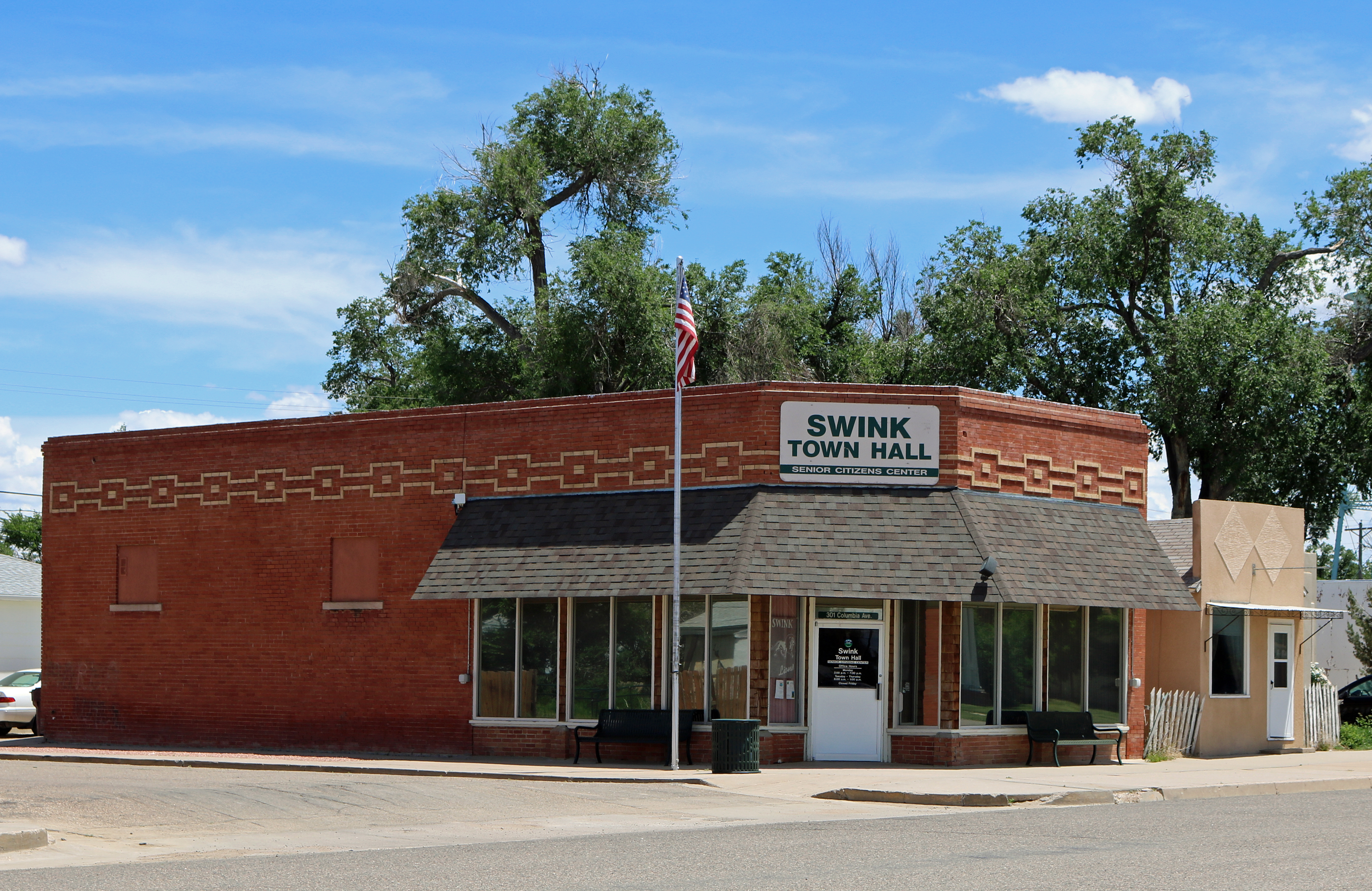 The town hall of Swink, Colorado, located at 3rd and Columbia in Swink, Colorado.